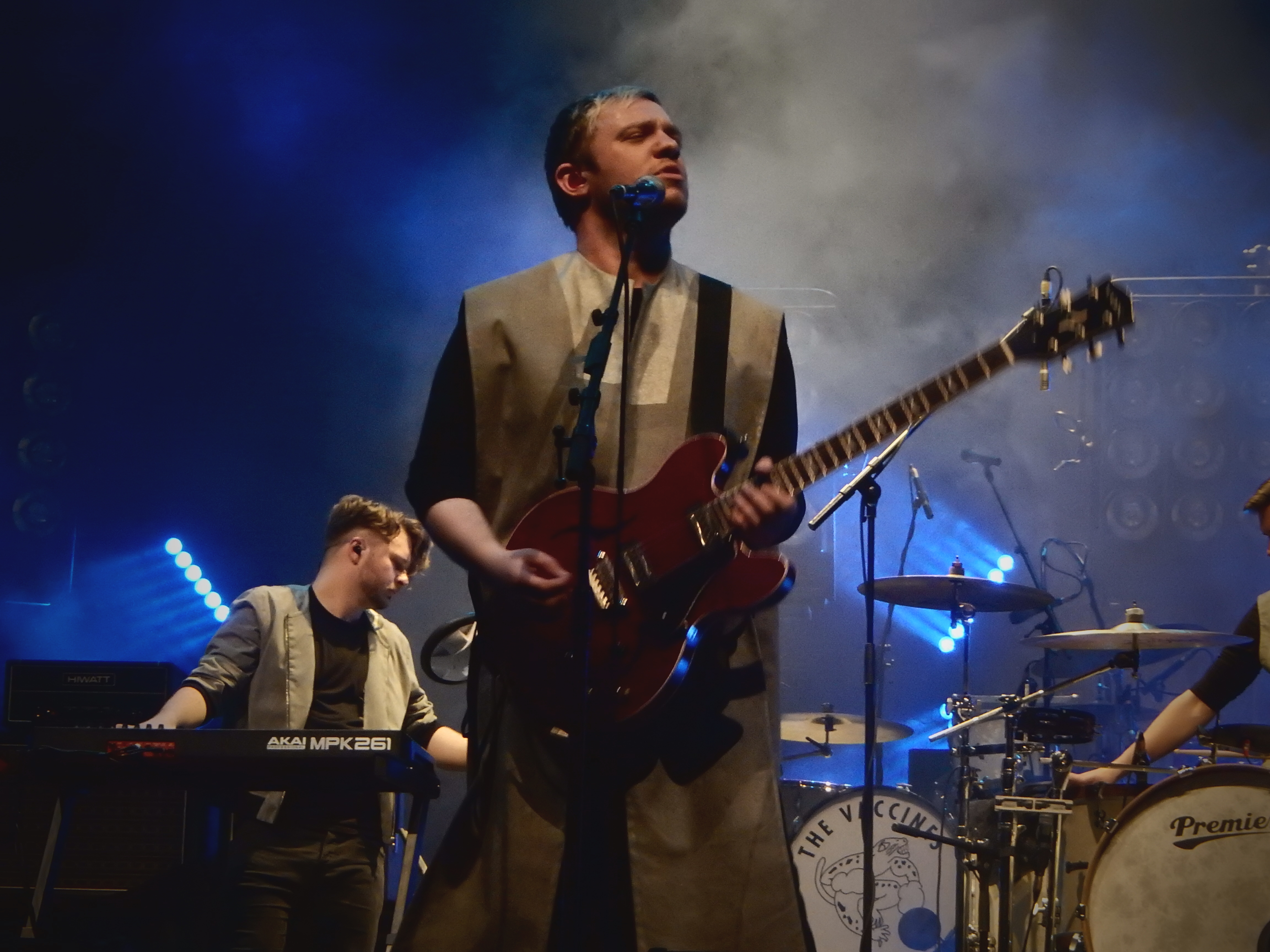 Everything Everything performing at the Royal Albert Hall, London